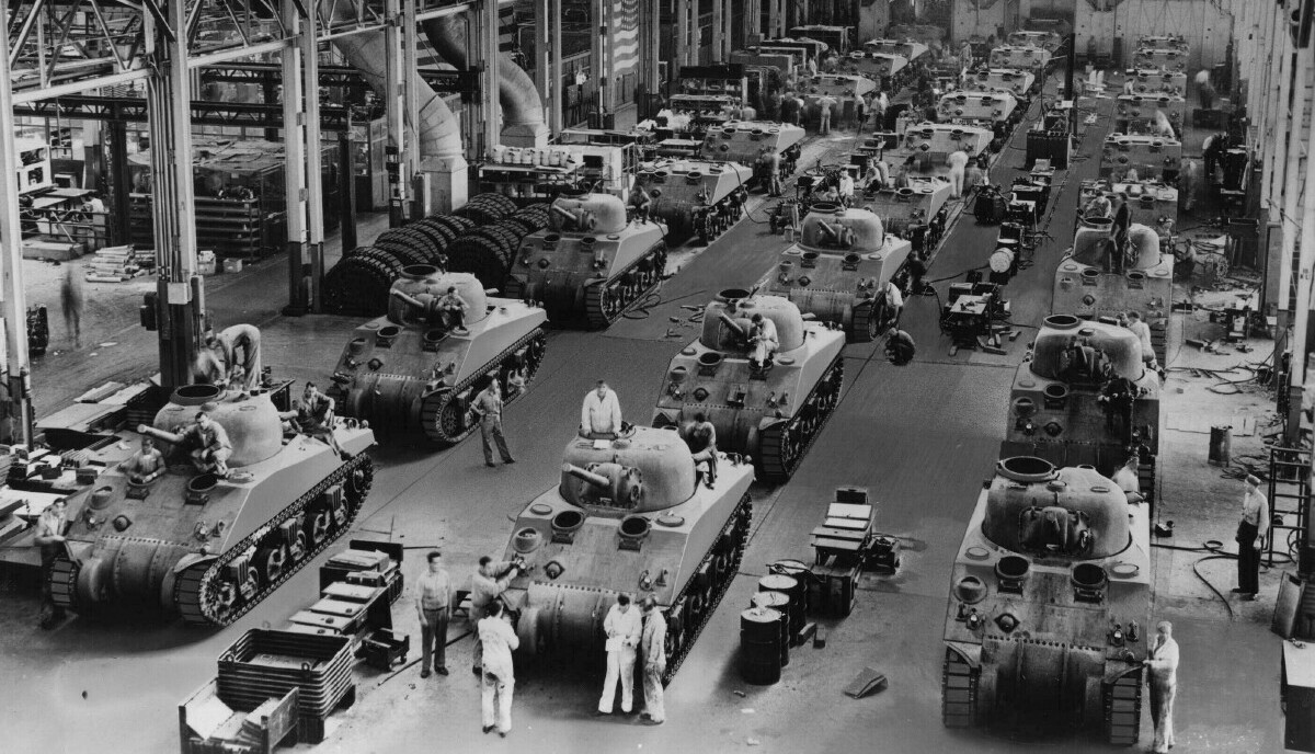 On Aug. 15, 1940, the Army contracted with Chrysler to create the Nation’s first government-owned, contractor-operated facility at the Detroit Arsenal Tank Plant in Warren, MI. This plant became known as the Arsenal of Democracy and has been pivotal in Army engineering ever since. Scene depicts production of M4A4 Sherman Tanks some time during 1942. -Cropped using GIMP to remove the border.